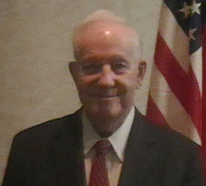 Image of Prohibition Party presidential nominee Jack Fellure